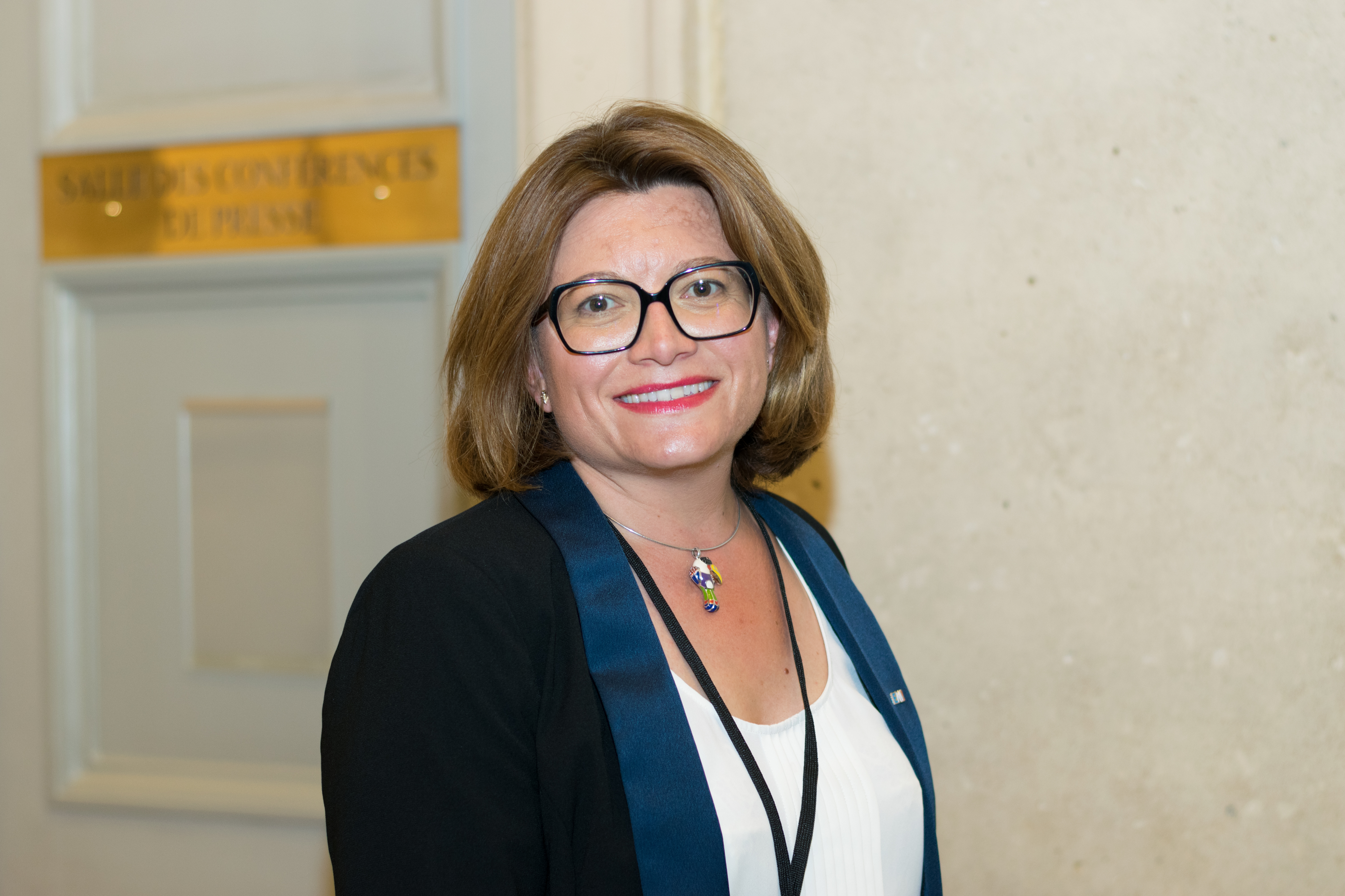 Stéphanie Kerbarh in the salle des Quatres Colonnes of the Palais Bourbon (Paris, France).